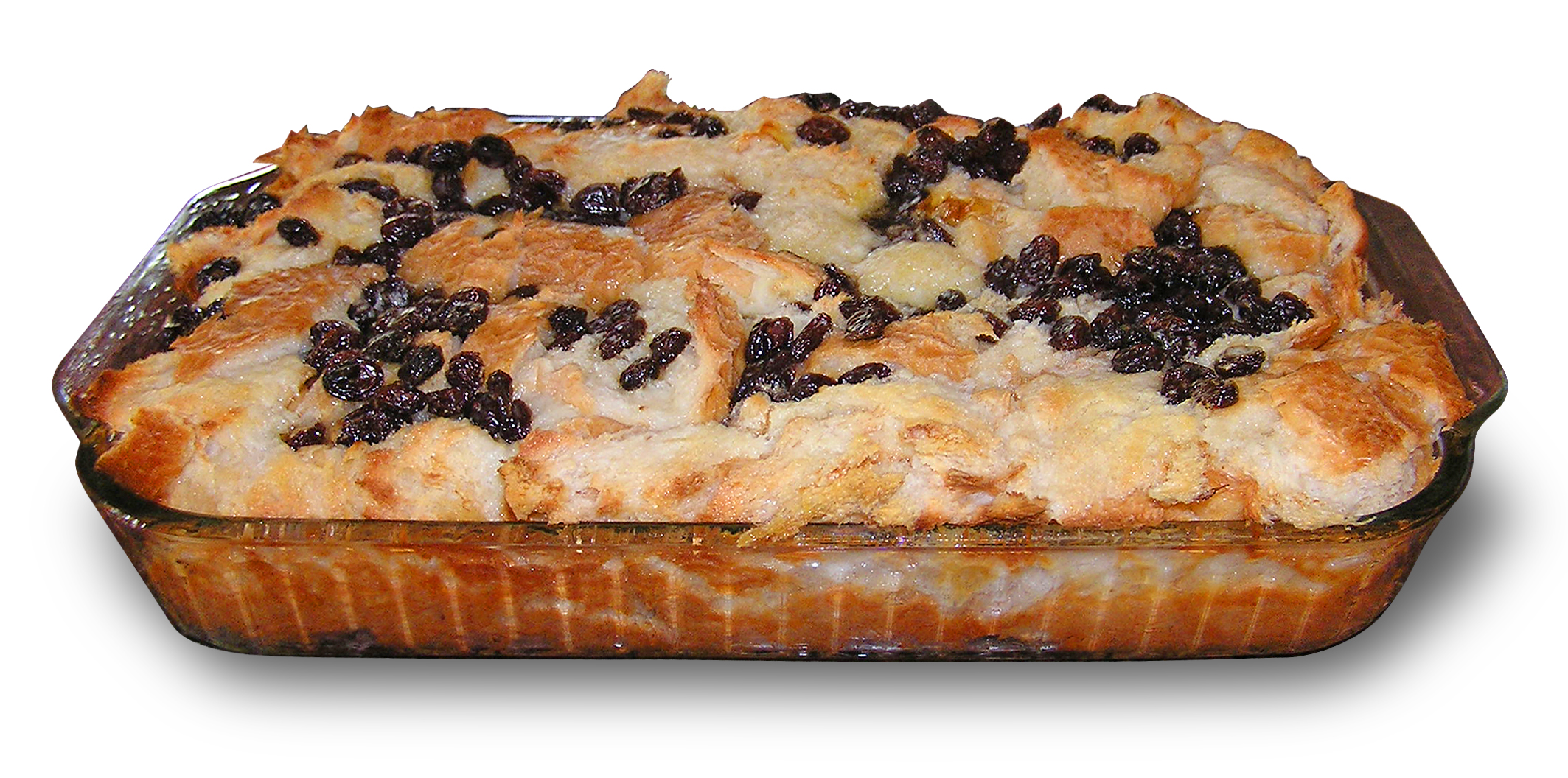 remove background